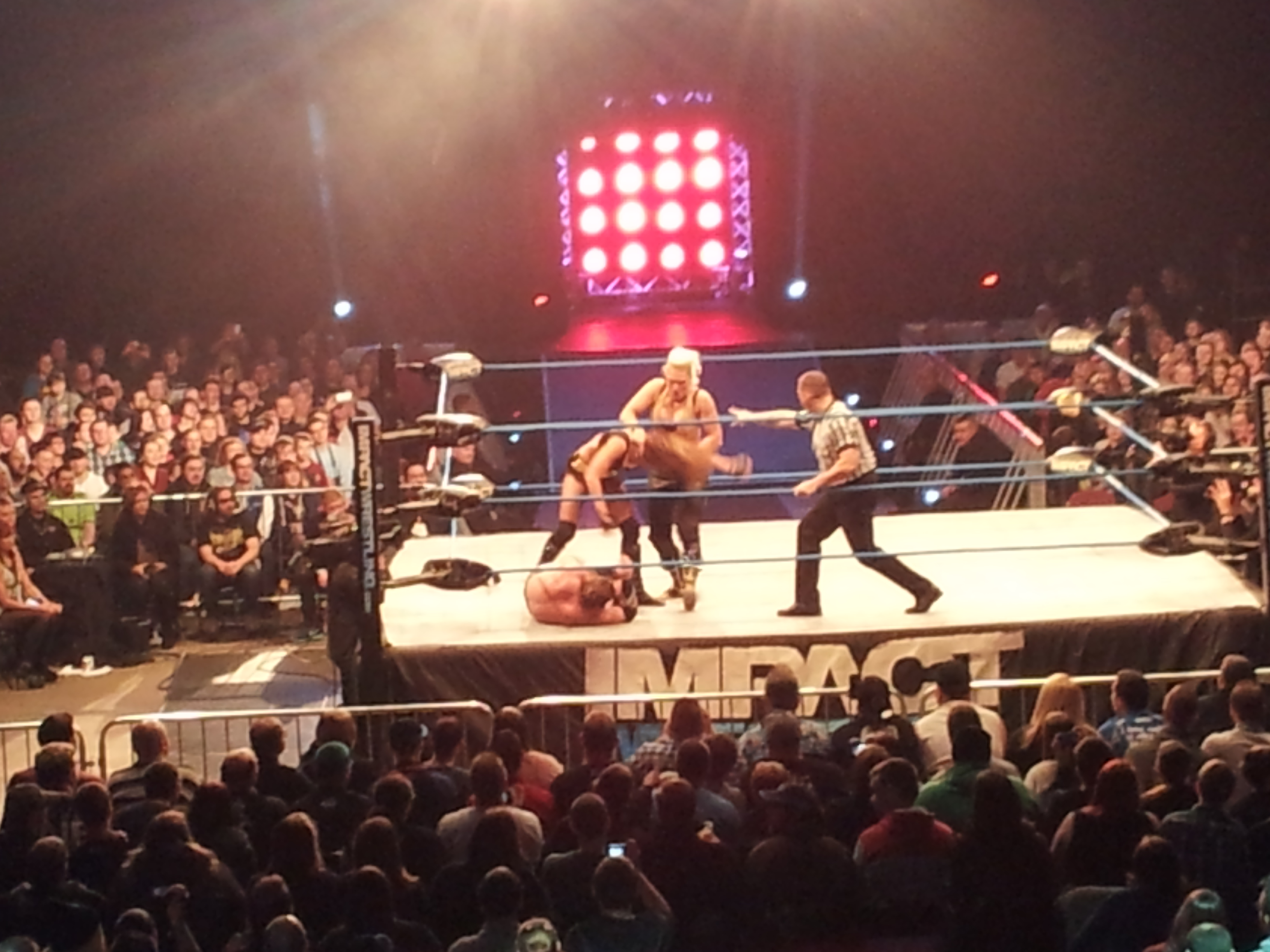 TNA Maximum Impact VI Tour – 31st January 2014 – Phones 4 U Arena, Manchester